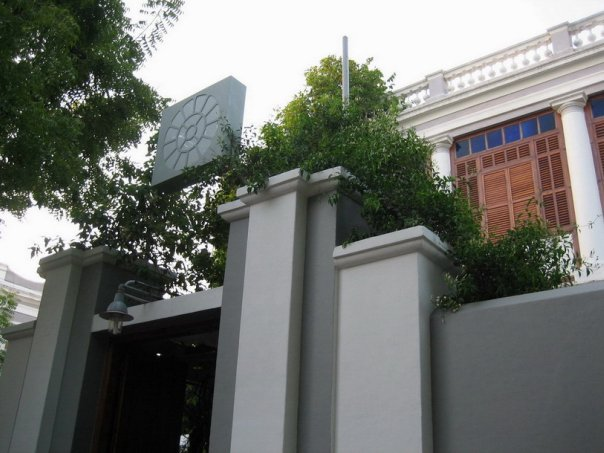 Sri Aurobindo Ashram. Main gate.